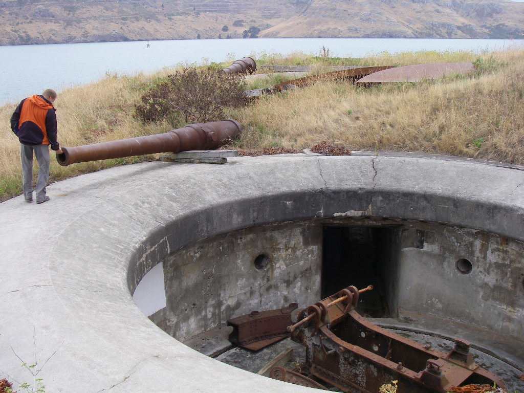 Derelict Armstrong guns (6 inch Mk V in foreground, and remains of an 8 Mk VII in background) partially removed from Fort Jervois, Ripapa Island, New Zealand.